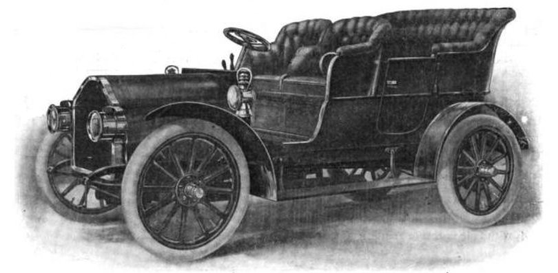 Image from an Waltham Manufacturing Co advertisement: 1905 Orient Deluxe touring car, 20 HP, 4 cylinder, air cooled. Title Motor age, Volume 7 Publisher Class Journal Co., 1905 Original from the New York Public Library Digitized Jun 24, 2006 Google Books